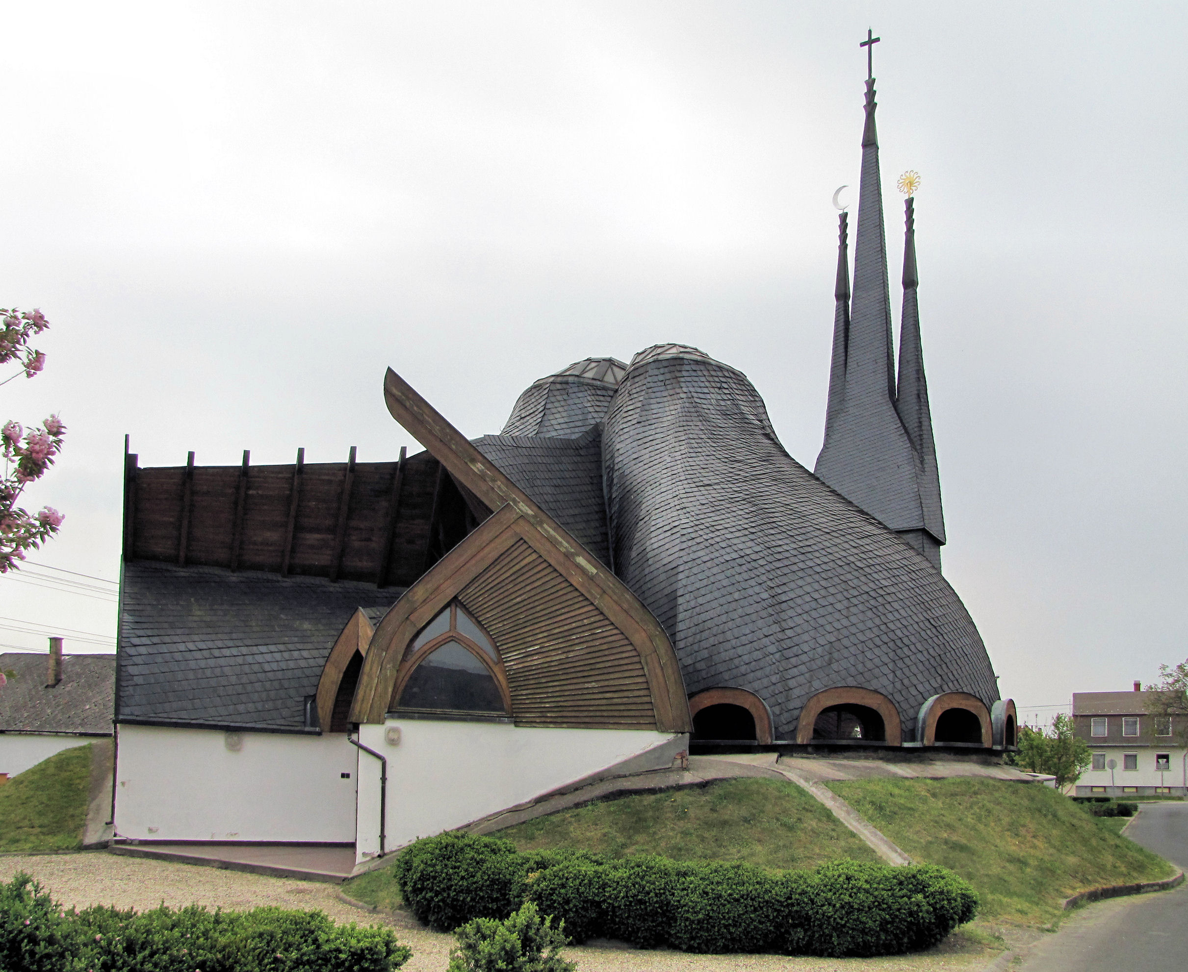 Holy Spirit Roman Catholic Church, Paks, Hungary. Architect: Imre Makovecz, planned and built in 1987-88. The photo shows the sanctuary and the back of the building.